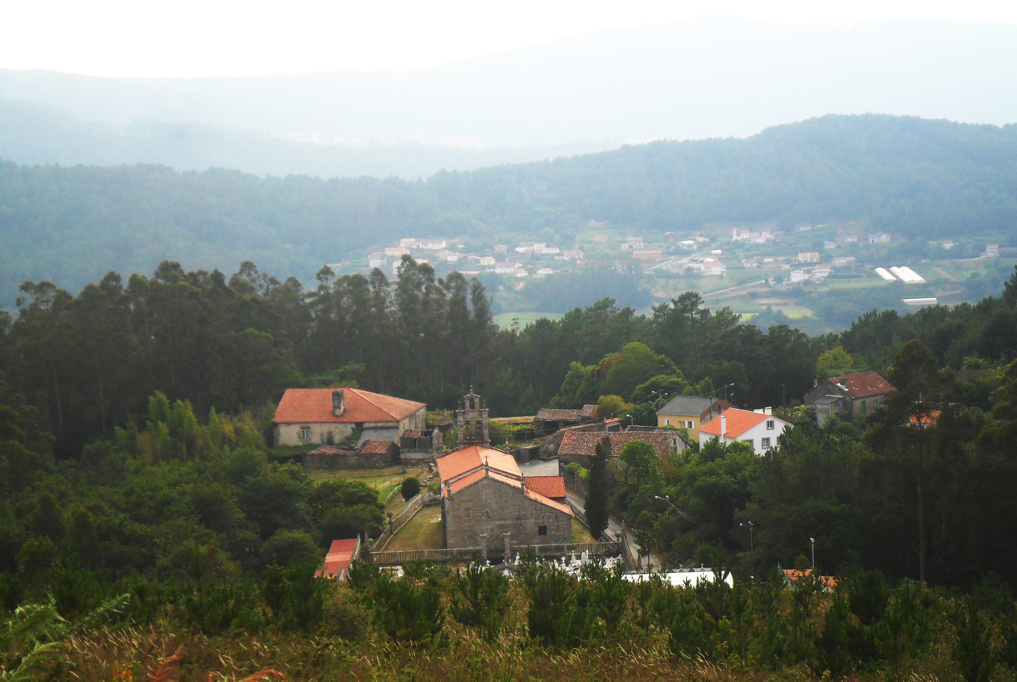 Lousame, seoane